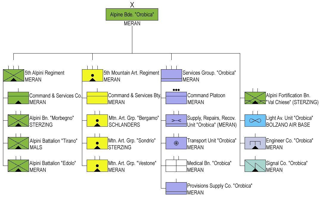 Structure of the Italian Army "Orobica" Alpine Brigade in 1974